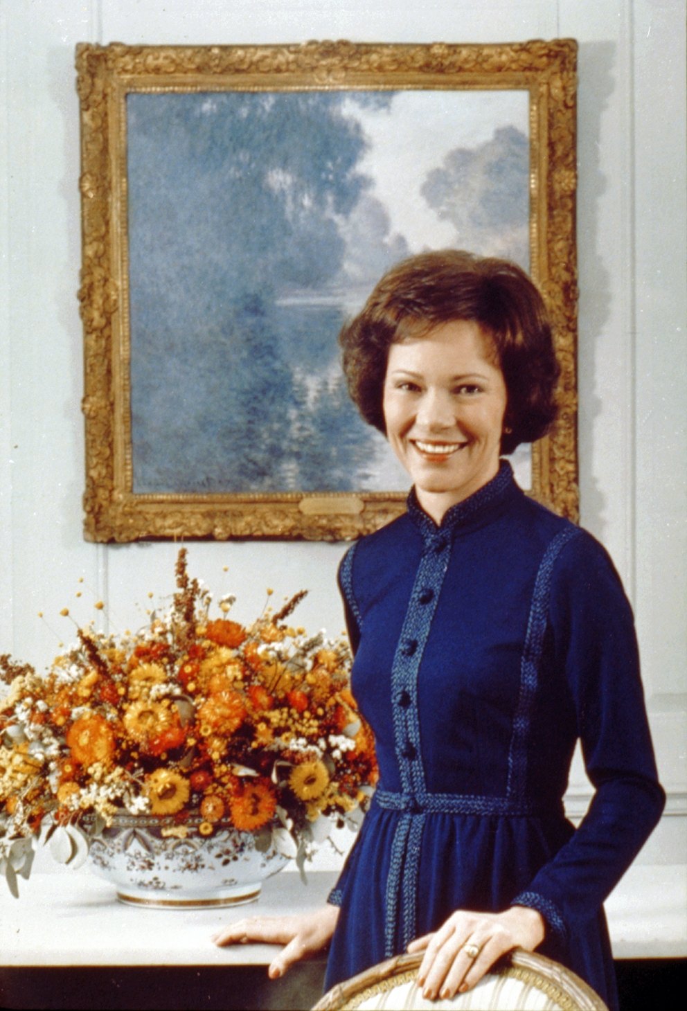 Rose Carter, former First Lady of the United States.